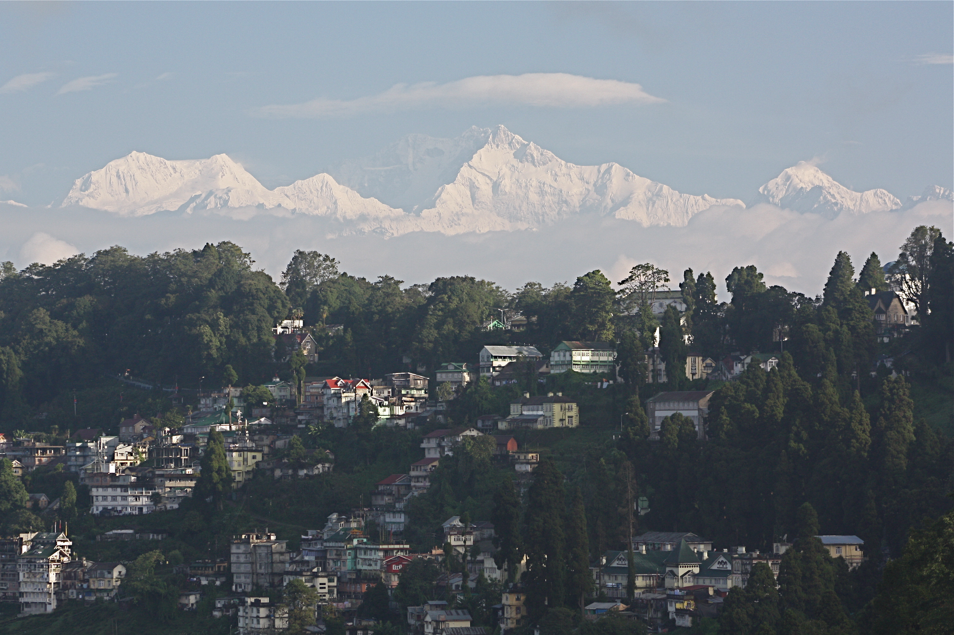 Darjeeling with the Himalayas and the Kangchenjunga in the backdrop.